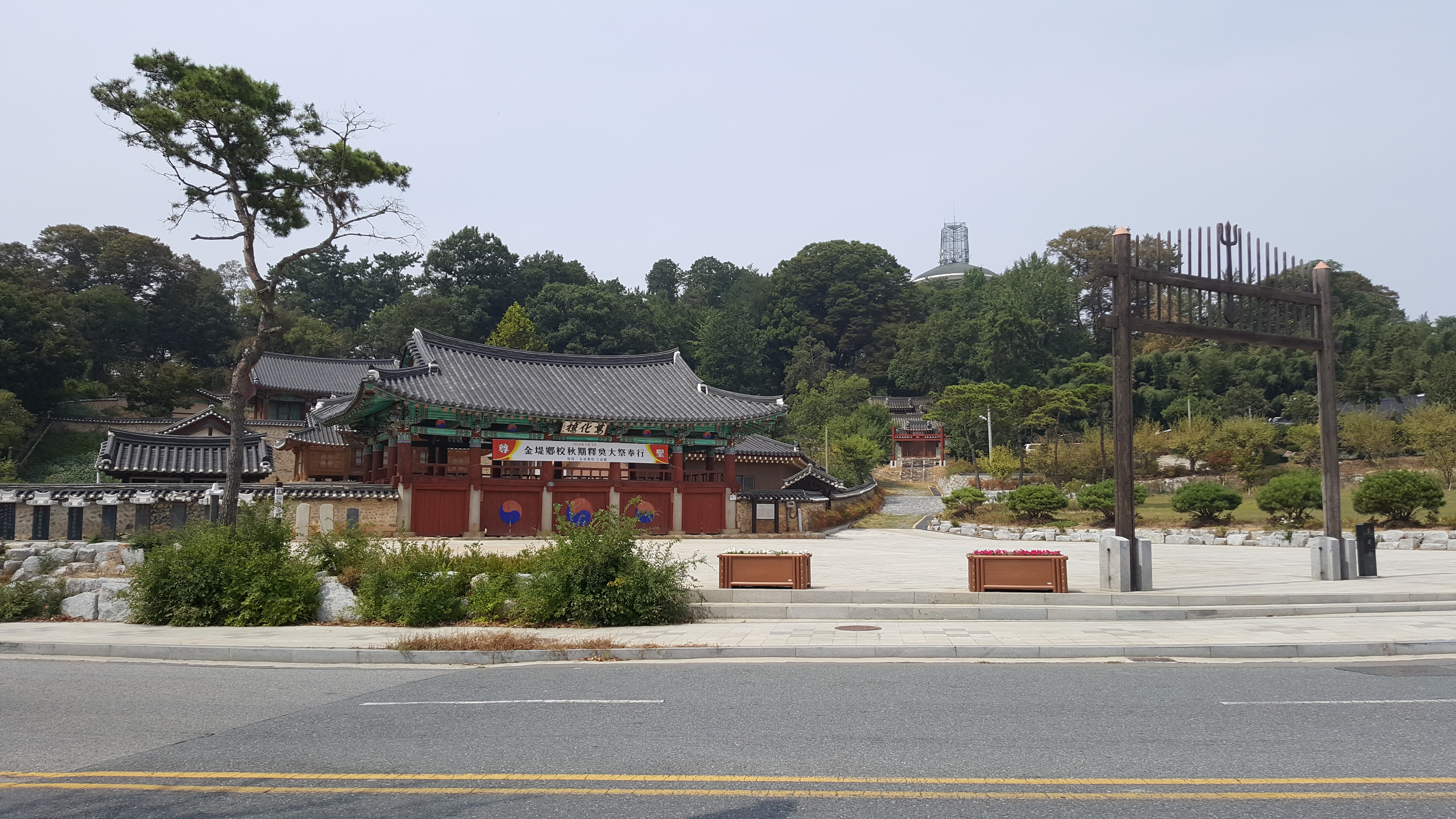 Gimje Hyanggyo Daeseongjeon was established as a shrine to devote for Confucius in 1418 for the first time.